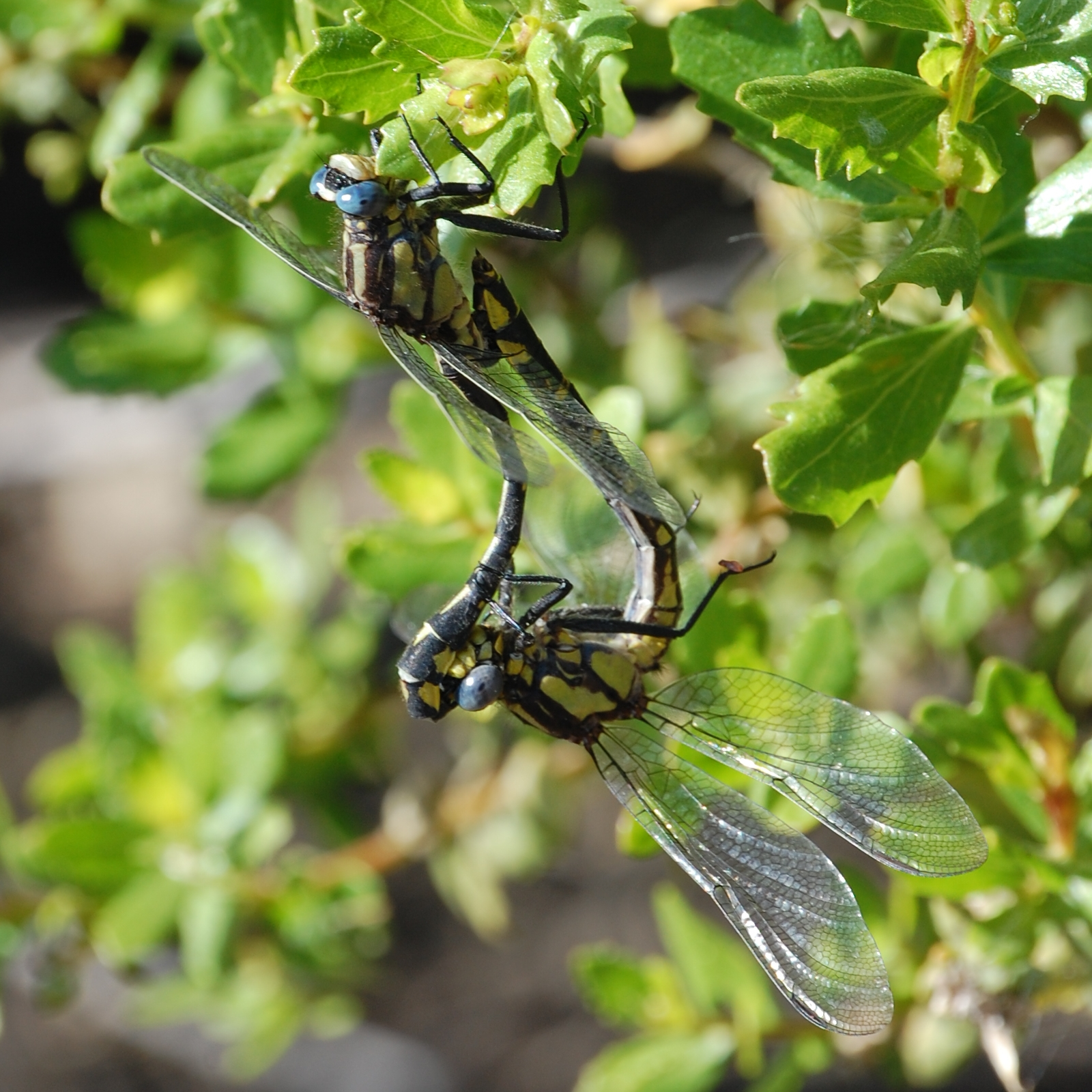 Pacific Clubtail. Copulating